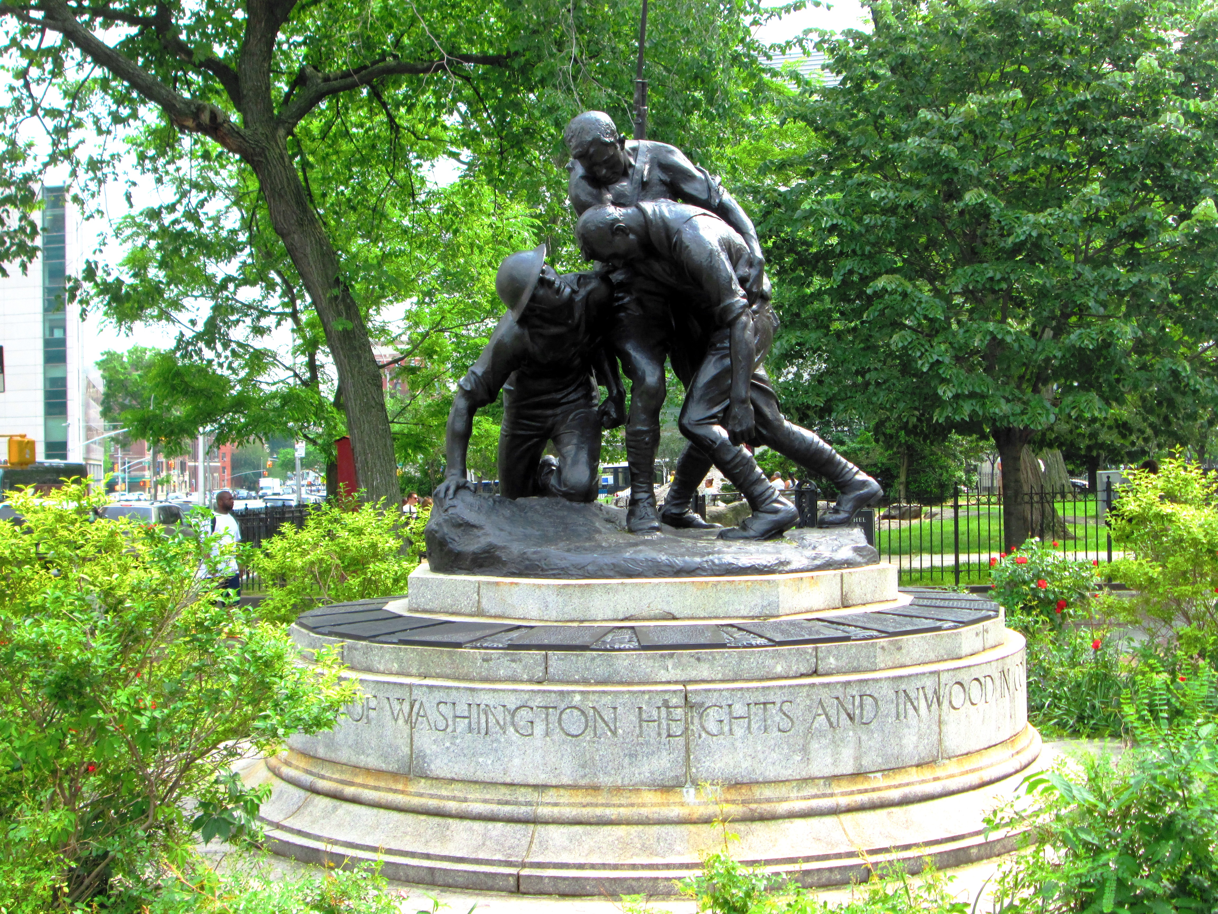 Mitchel Square in New York City is the triangle formed by Broadway and St. Nicholas Avenue between West 166th and 168th Streets in the Washington Heights neighborhood of Manhattan. It is named after John Purroy Mitchel, the youngest mayor of New York City. The focus of the square is the Washington Heights-Inwood War Memorial by Gertrude Vanderbilt Whitney, dedicated on May 30, 1922. The monument honors men from those neighborhoods who died in World War I. (Source: NYC Parks Dept)